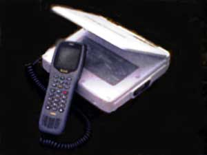 Wide Star